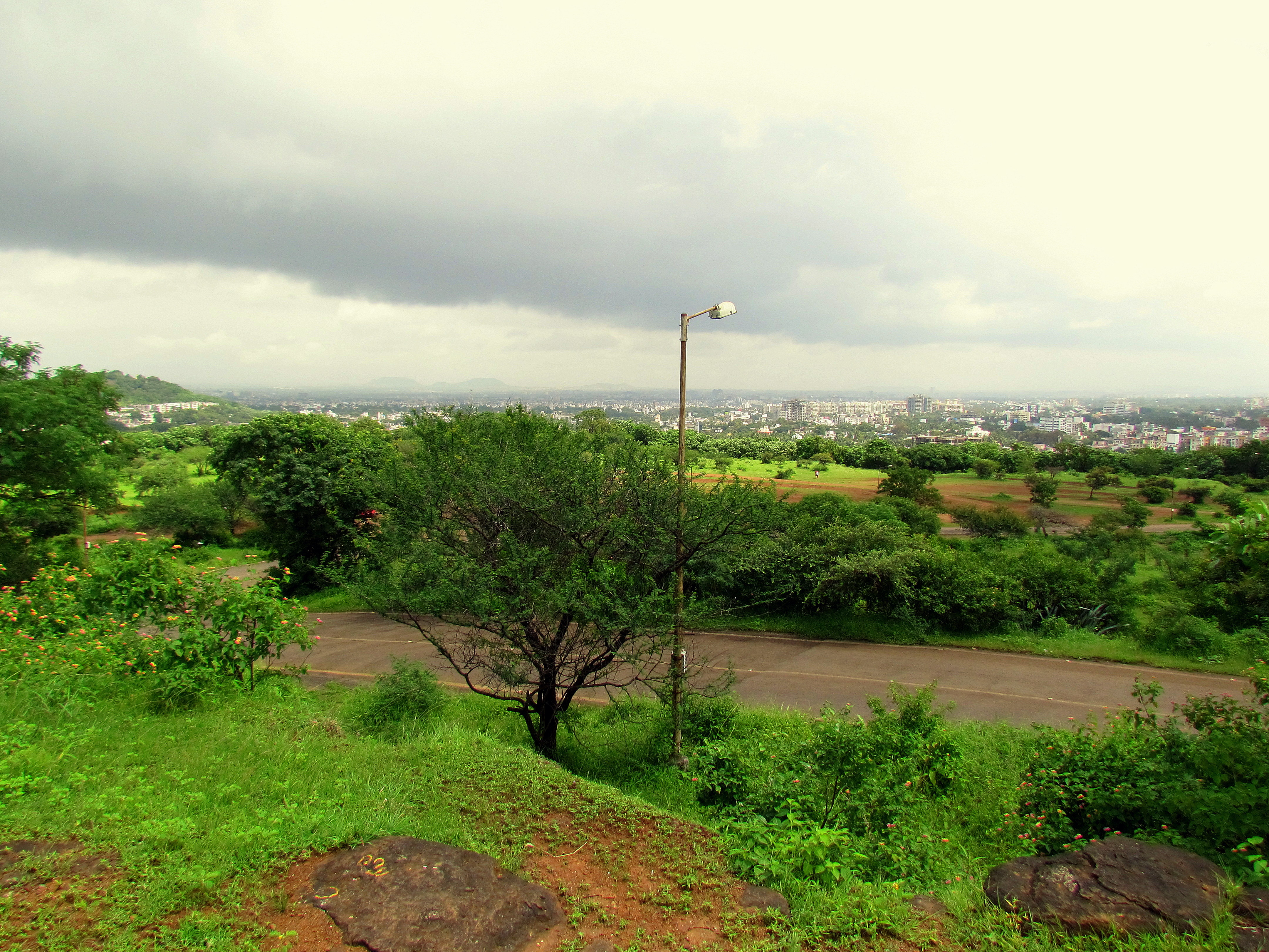 This picture is a beautiful view of Pune taken from the top of the hill of Taljai, a lush green hill in Pune.